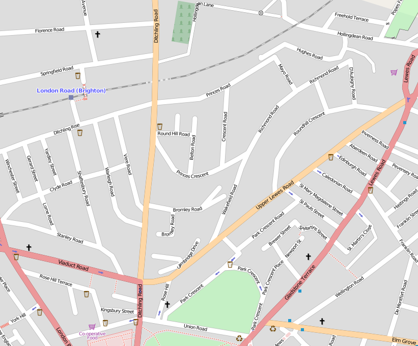 A map of the Round Hill area of the City of Brighton and Hove, England, derived from OpenStreetMap (permalink)